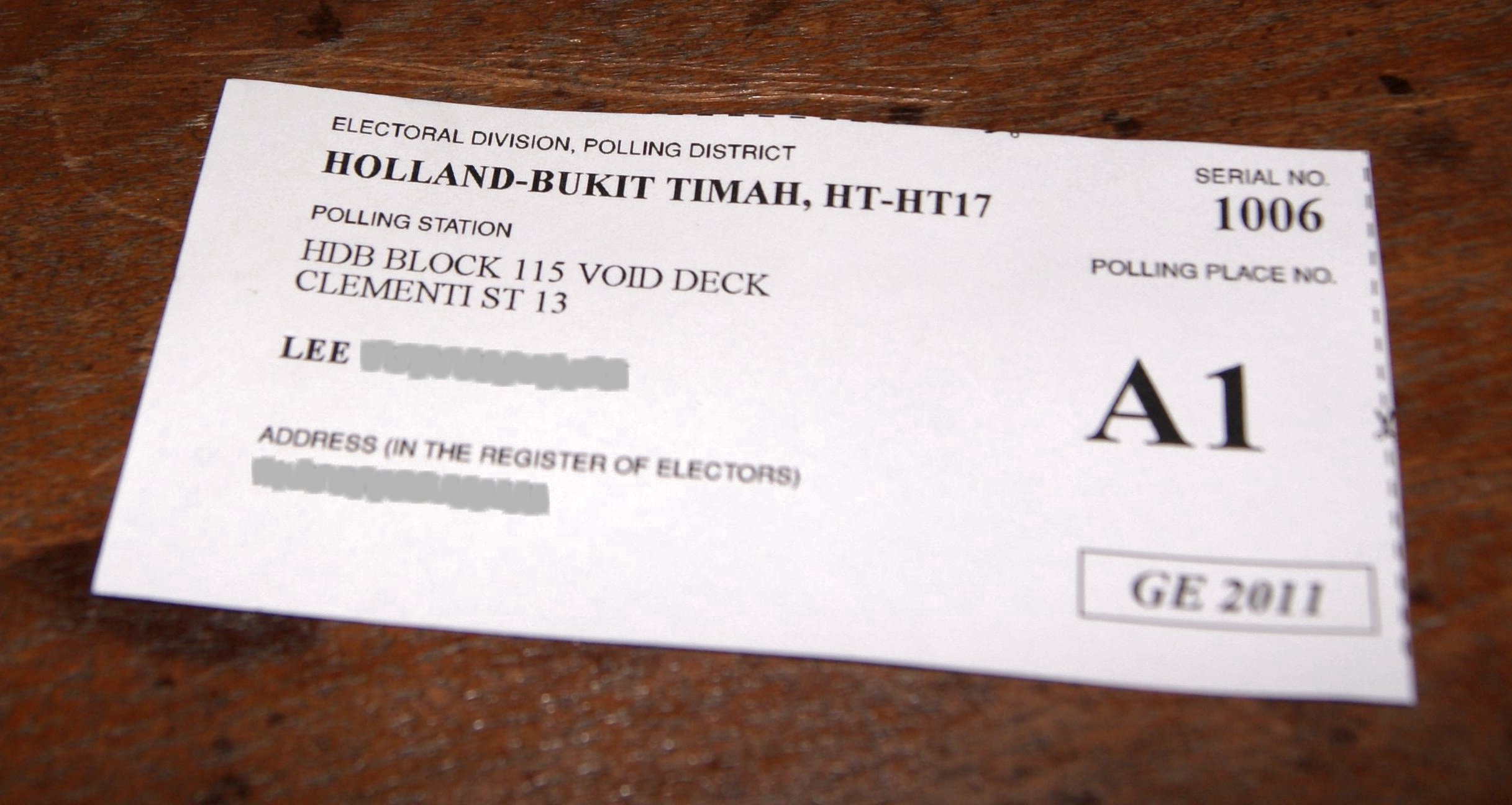 The front of a poll card issued for the Singaporean general election, 2011. The polling station in question was at the void deck of Block 115 Clementi Street 13 in the Holland-Bukit Timah Group Representation Constituency.